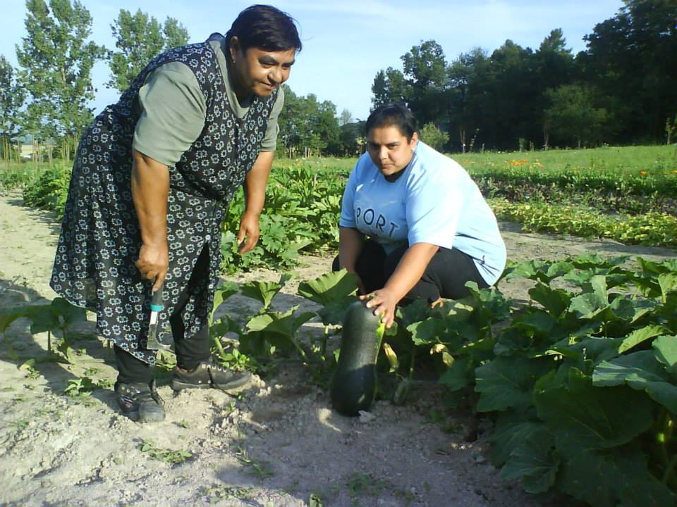 The organic farm Malinka in Rudlov (Slovakia) har been renovated and expanded, creating new jobs and helping to secure already existing ones. In Slovakia, unemployment rate among the Roma population is around 80 percent.